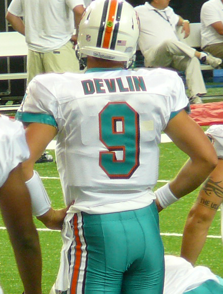 If used somewhere other than Wikipedia, Nelson, by name.